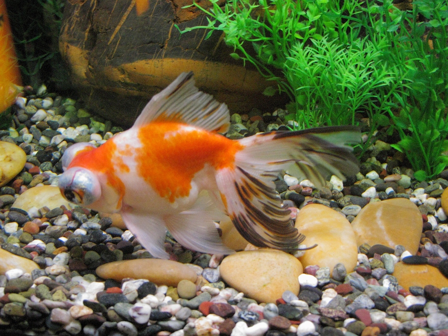 Orange, white and black dragoneye goldfish